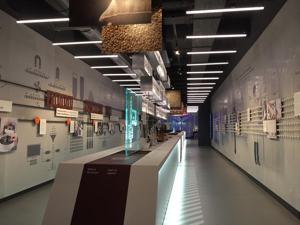 Museo Lavazza indoor